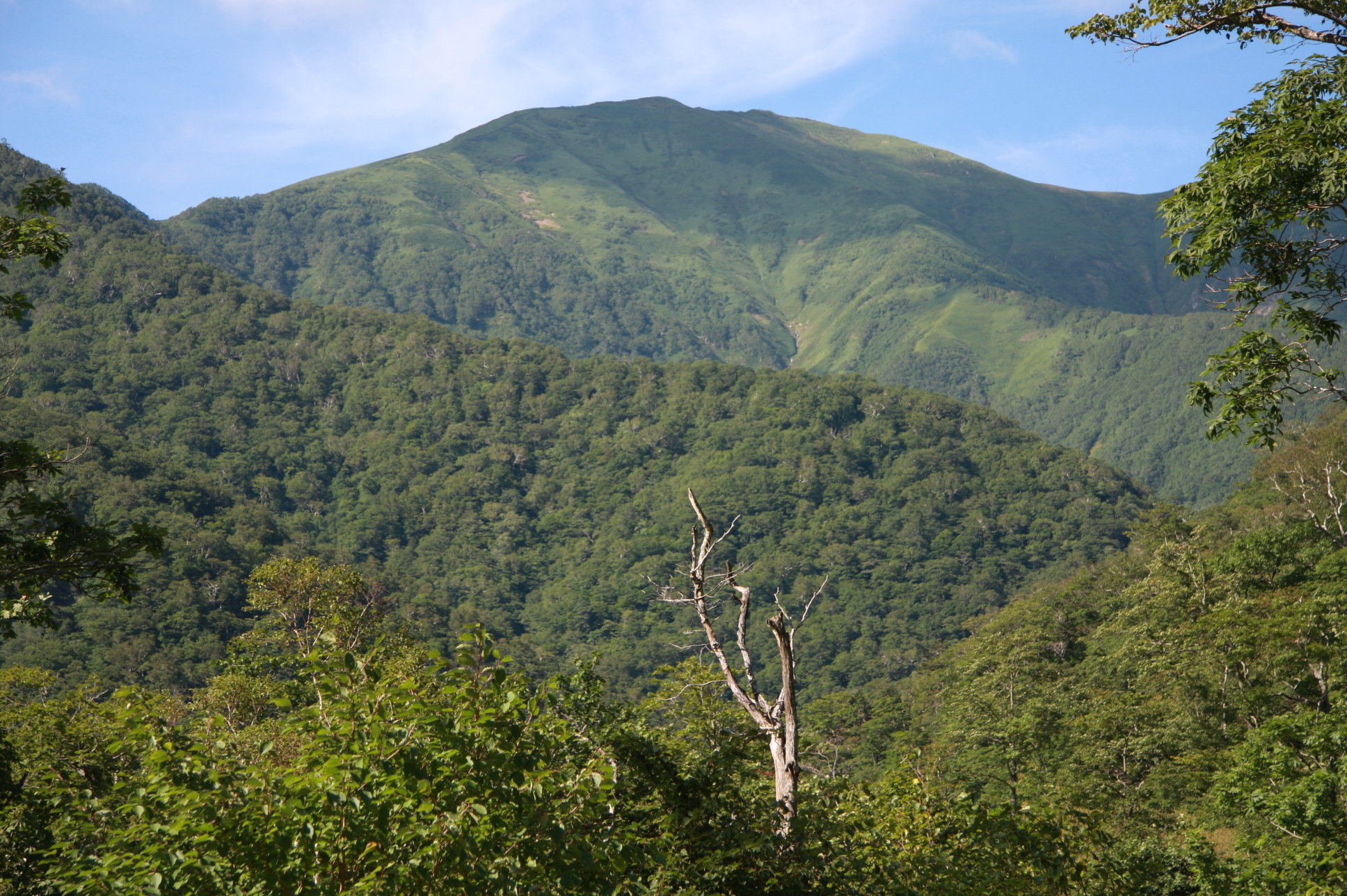 The South side of Mount Tokachi (Hidaka) as seen from Rakko Hutte.